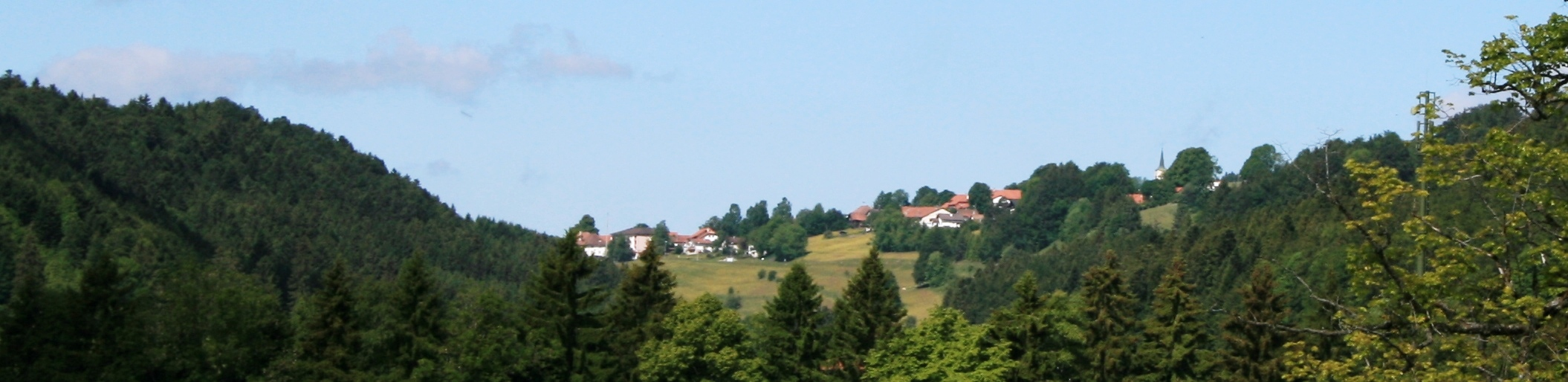 View from Bellelay BE to Les Genevez JU, Switzerland